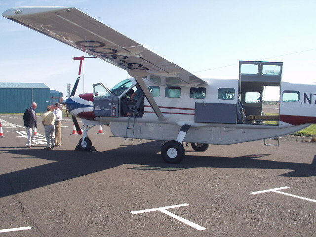 Prestwick Airport near Monkton. The launch of a new "Caravan" for MAF on its way to Tanzania